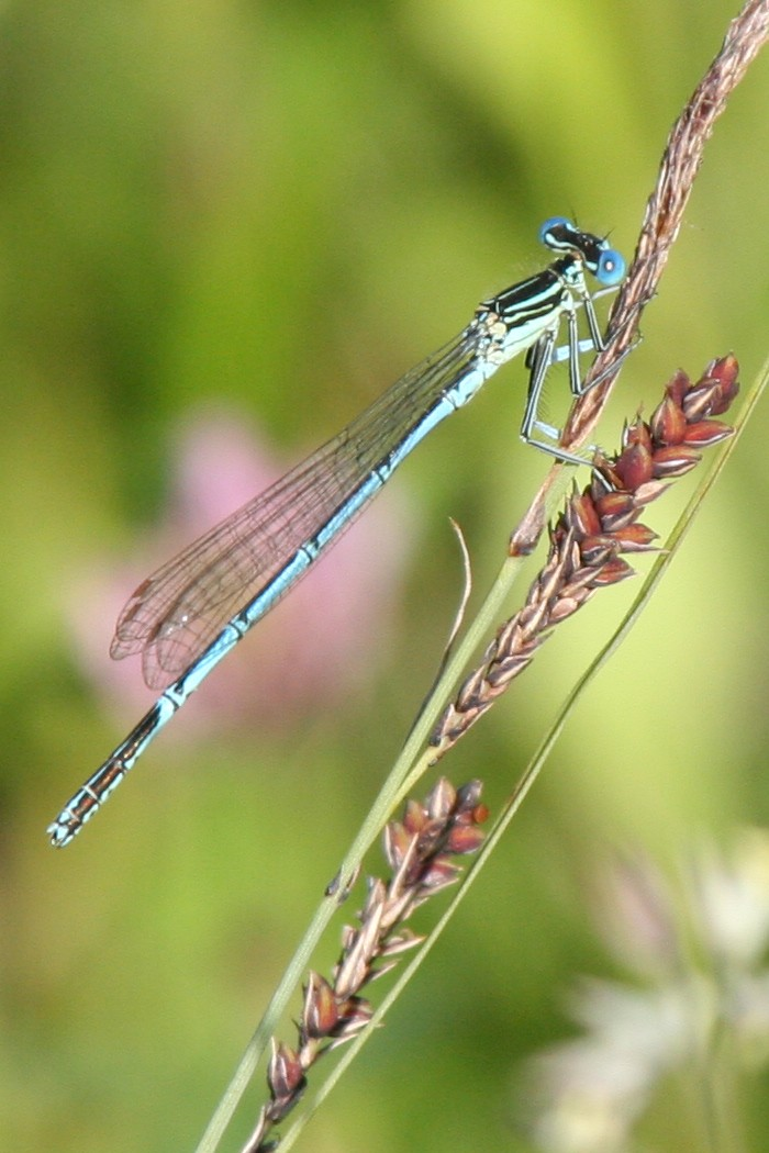 Male Platycnemis pennipes damselfly photographed in Weinsberg